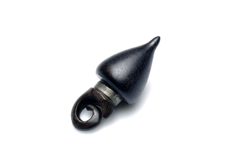 Wooden pendant earring worn by women in mourning